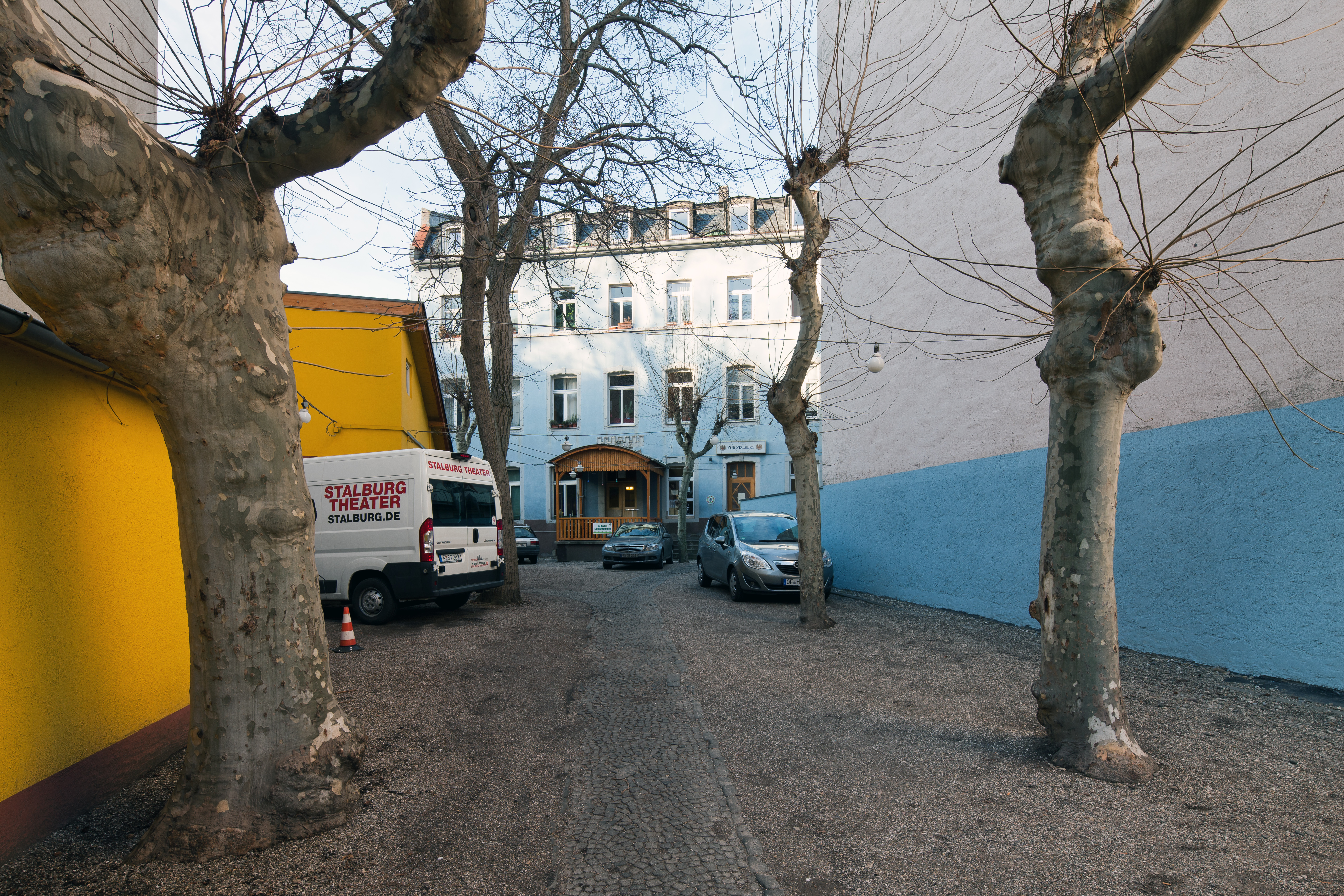 Frankfurt on the Main: Stalburger Oede (Stalburg Waste), courtyard with main building as seen from the south